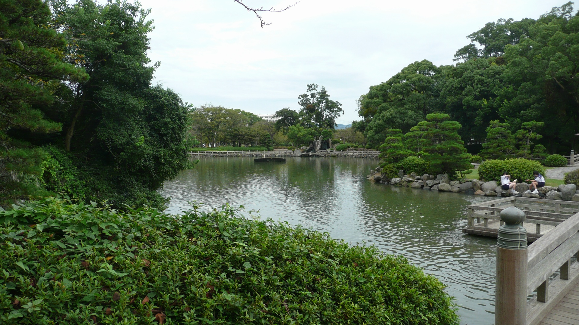 Omura Park (Omura City, Nagasaki, Japan)